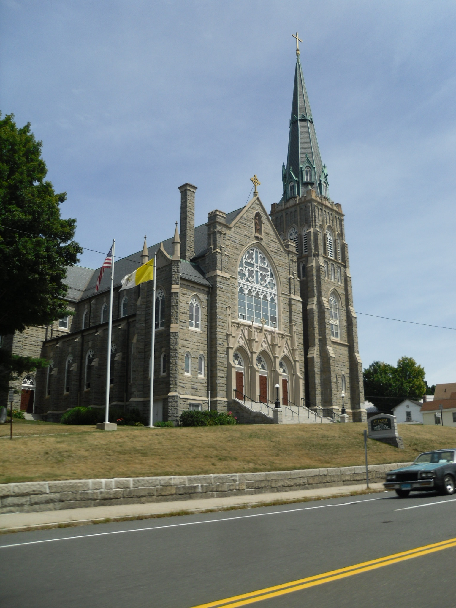 St. Joseph Church in Winsted, Connecticut